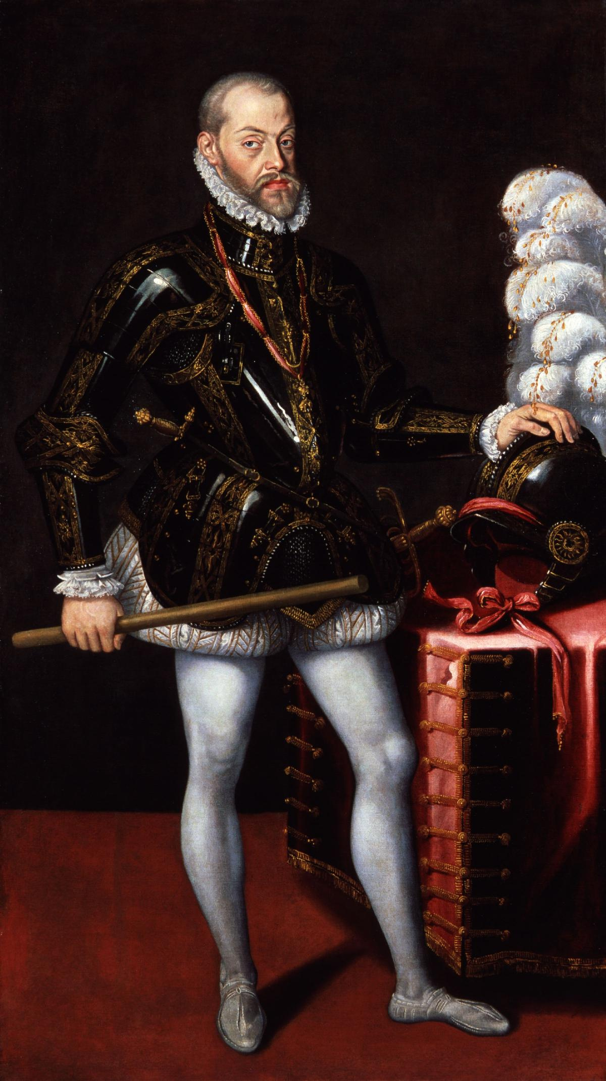 All images in this batch have an unknown author, but there is strong evidence it was first published before 1923 (based mainly on the NPG's estimated date of the work).